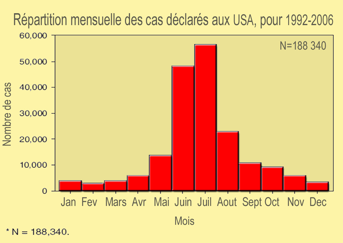 Number of reported lyme disease cases, by month or illness onset, USA, 1992-2006 (source : CDC). Other interresting information (from CDC too) : "More than 65% of patients with EM had illness onset in June and July, compared with 37% of patients with arthritis".